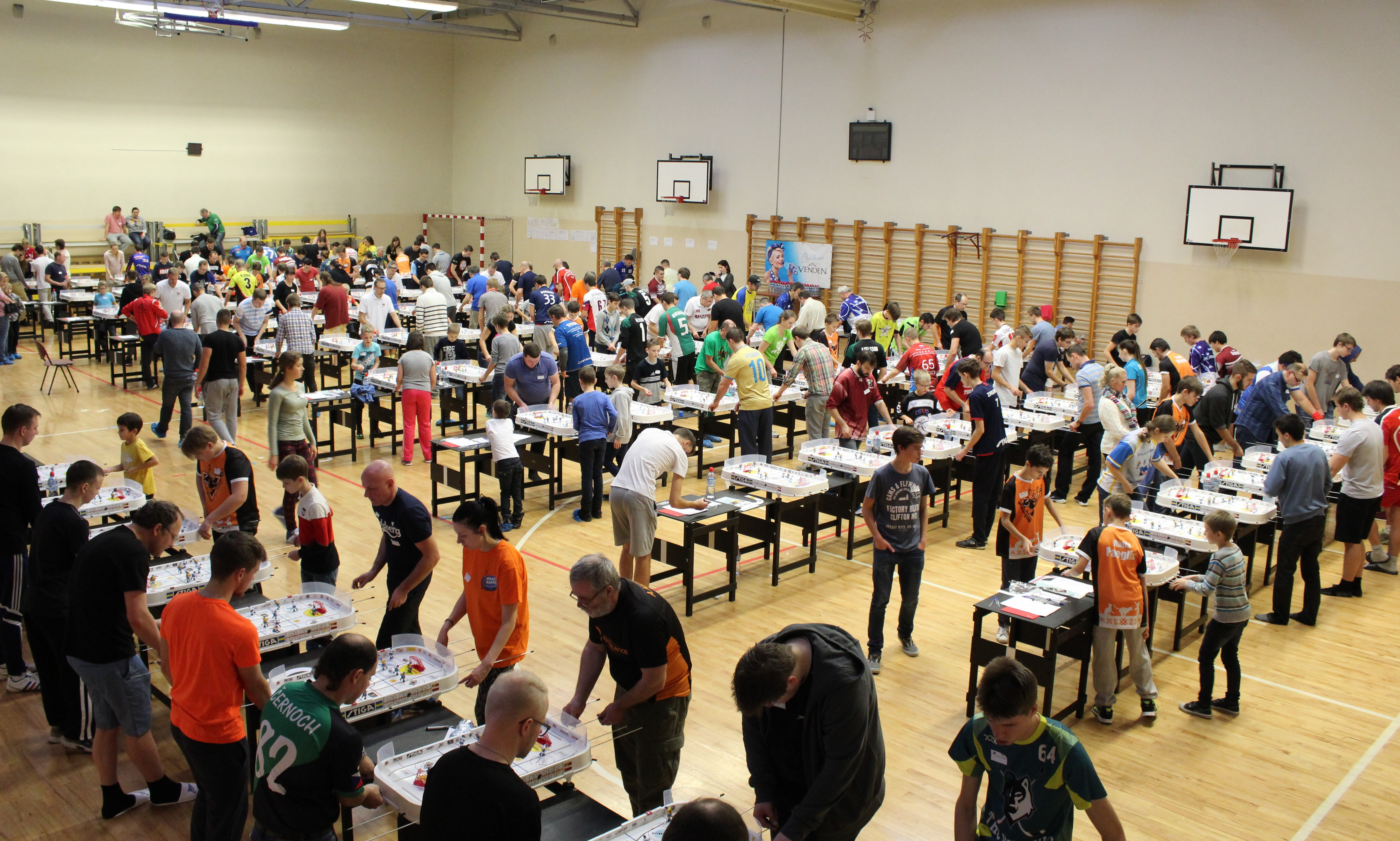 ITHF Table hockey. At Riga Cup - 2016